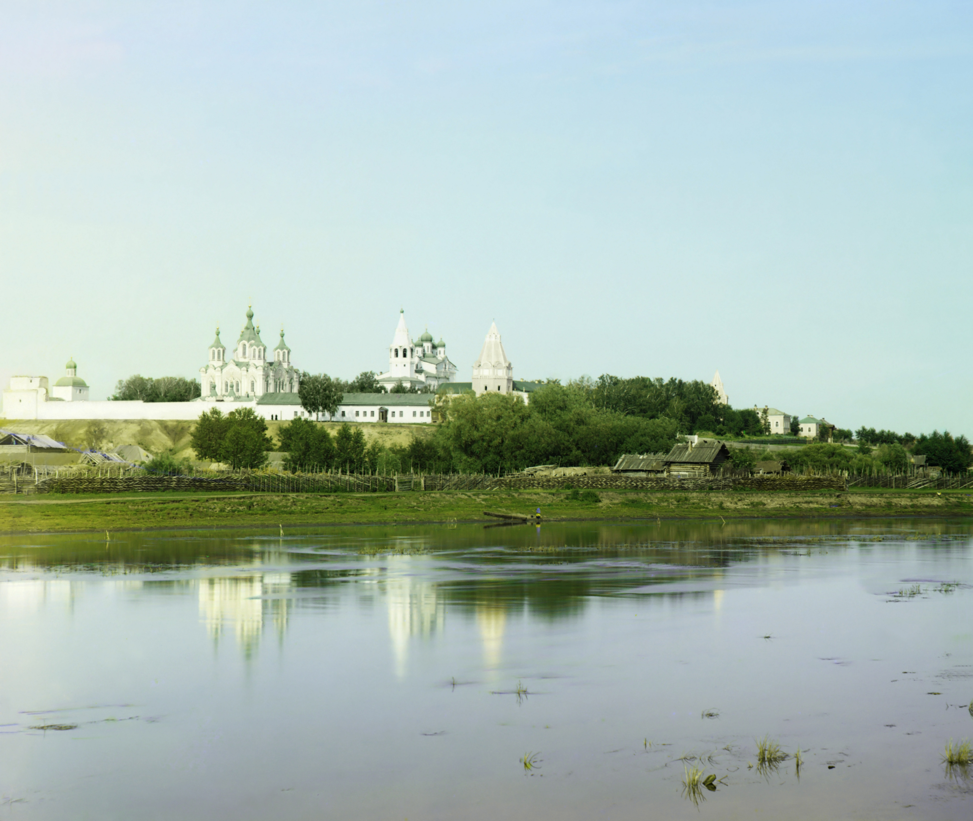 Original Description: View of the Dalmatov Monastery from the Iset River.